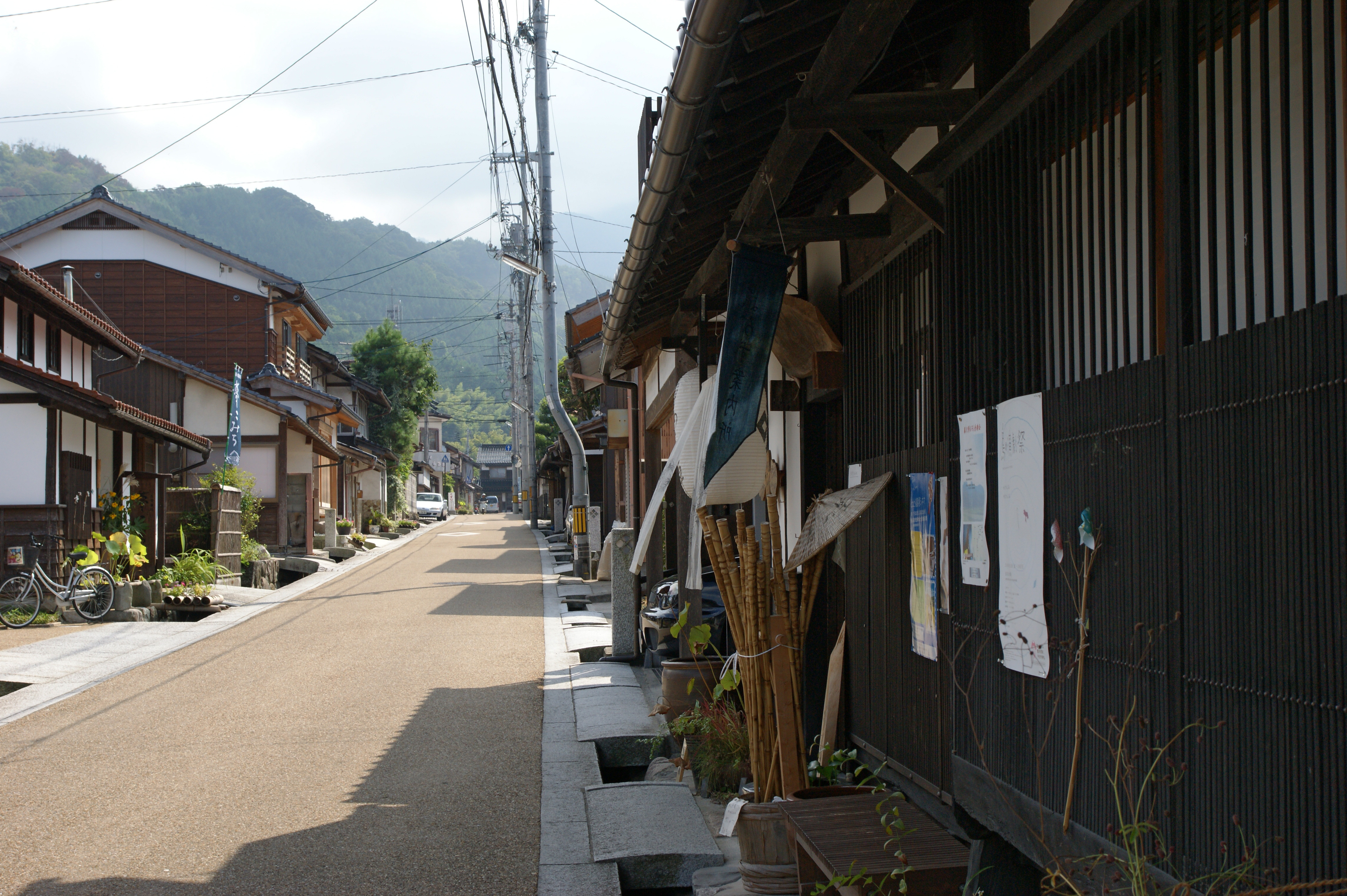 Shikano, Tottori, Tottori prefecture, Japan